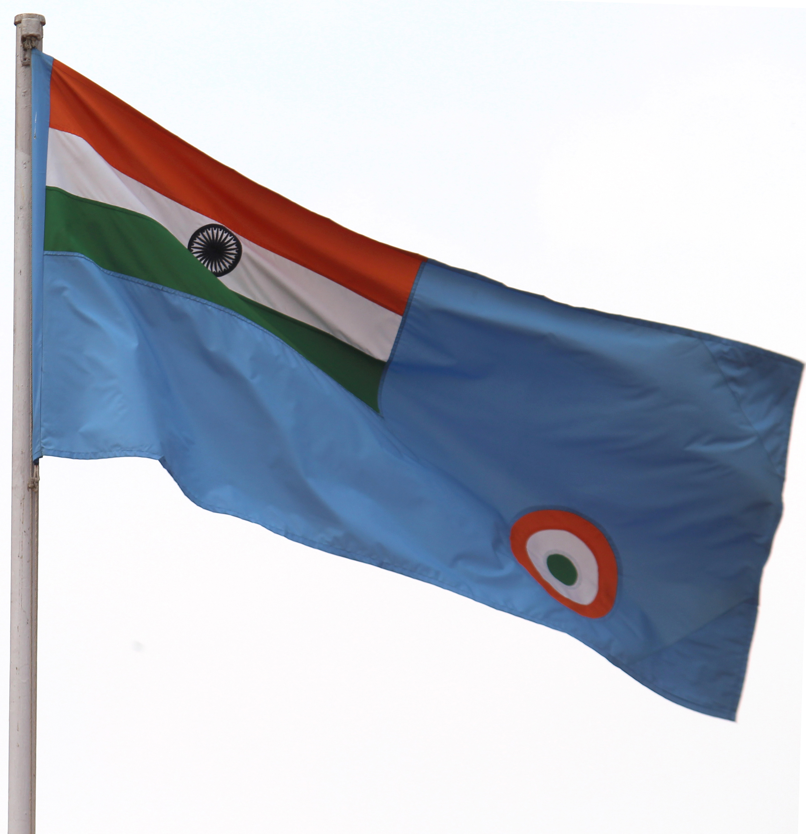 Indian Air Force flag fluttering at India Gate